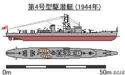 Figure of No.4 class submarine chaser of the Imperial Japanese Navy in 1944.